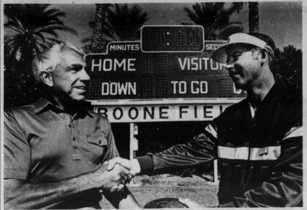 From The Desert Sun on 2/15/1984: “Robert F. Boone (Left) is congratulated by College of the Desert Athletic Director, John Marman, standing before the scoreboard which is located on the campus football field now bearing his name.” The official presentation was made at halftime of the Homecoming game on 11/3/1984, when the team faced Imperial Valley College. The Roadrunners won the game, 50-8.